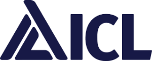 ICL (Israel Chemicals) new logo